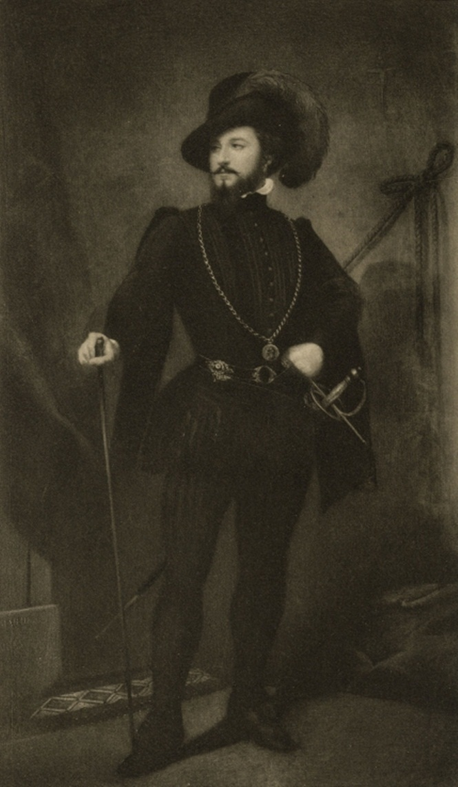 Giovanni Matteo "Mario" (October 18, 1810 – December 11, 1883) was an Italian opera singer.